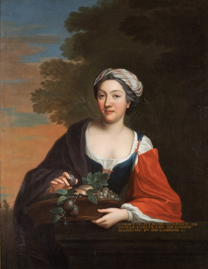 Portrait of Henriette Julie de Dufort de Duras (1696-1779), comtesse d’Egmont. She is depicted in a country outfit, her hair held up by a bandage, wearing a basket of summer fruits. The painting, owned by her daughter Henriette-Nicole Pignatelli d'Egmont (1719-1782), duchesse de Chevreuse, by family transmission until the 2018 sale, remained at the castle of Dampierre family property since the late eighteenth century.